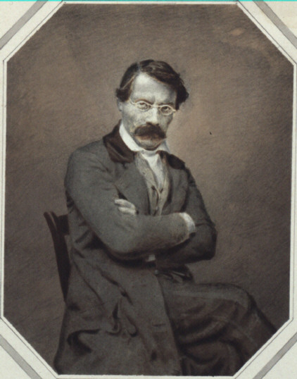 The german photograph Alois Löcherer (1815-1862)